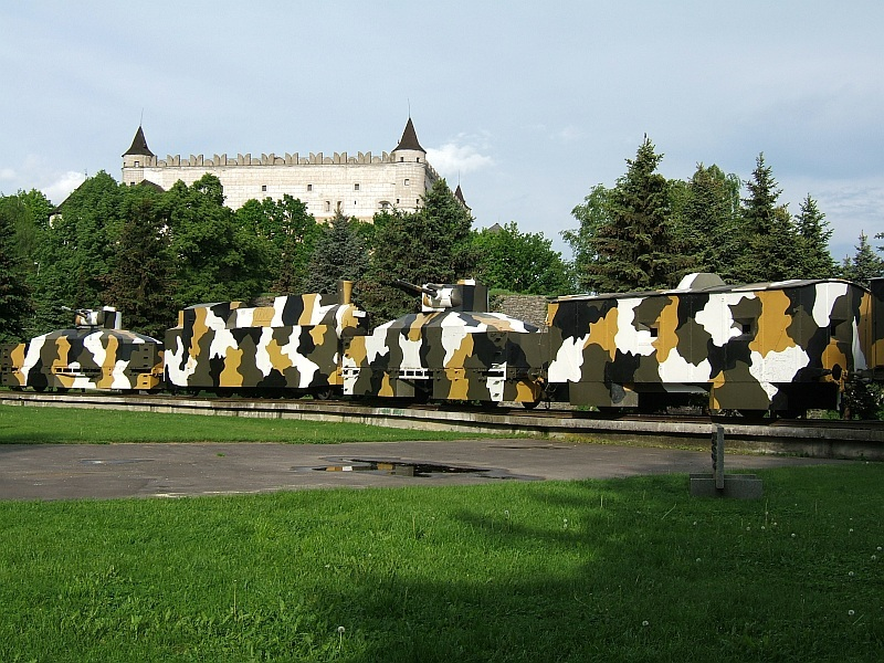 armored train